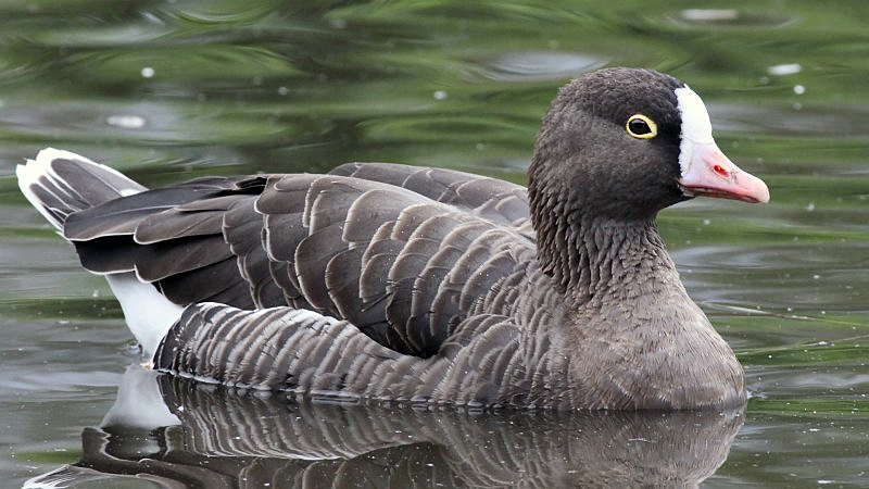 Lesser white fronted goose (Anser erythropus)